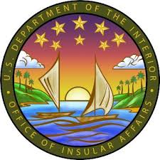 Logo of the Office of Insular Affairs, United States Department of Interior